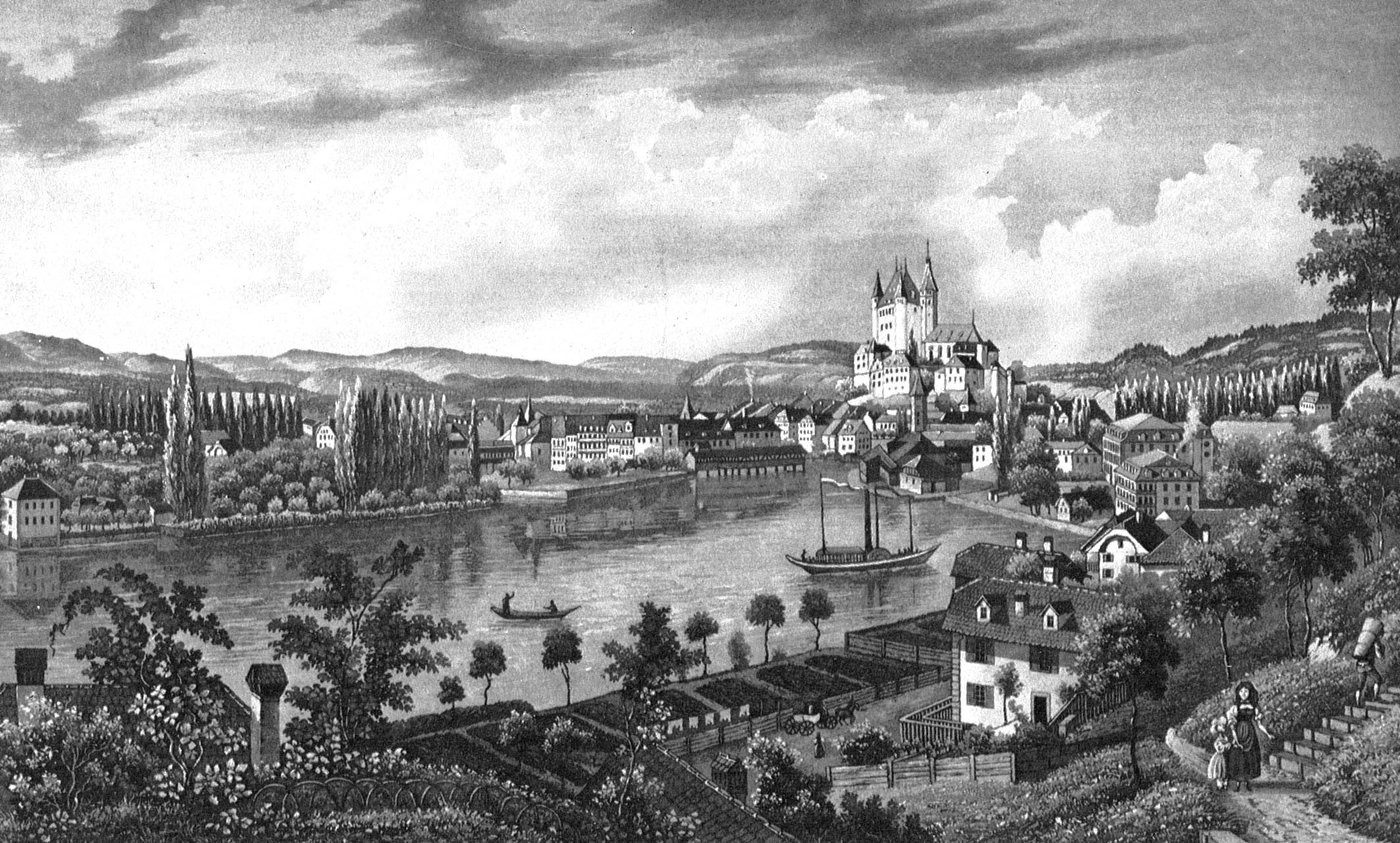 Lithography of Thun, Switzerland, in the 1830s.